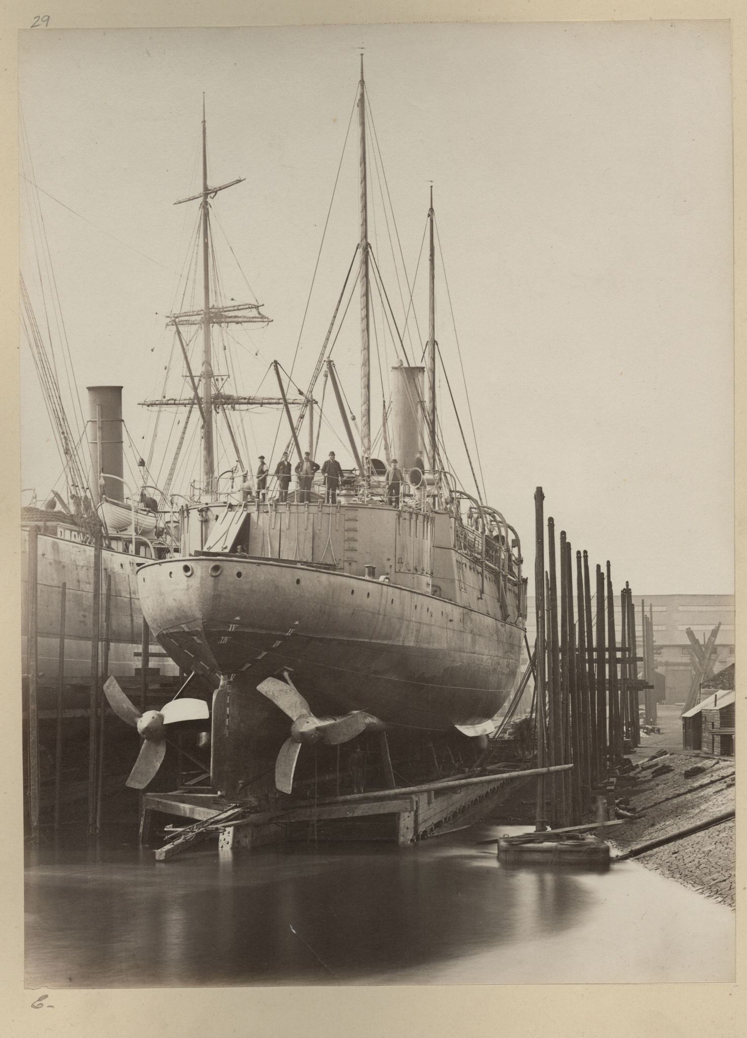 The Chinese cruiser Yangwei in drydock on the Tyne, England